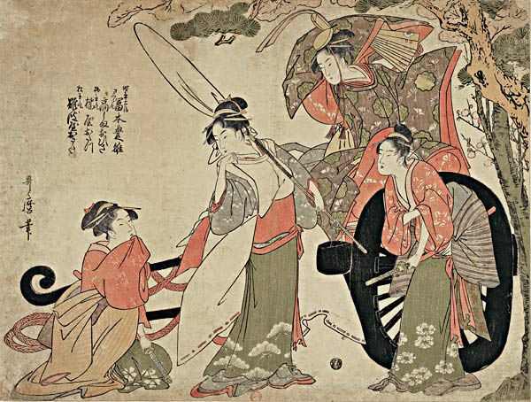 Kitagawa Utamaro (1753-1806): Woodcut print, called Mitate of the broken cart, showing an episode of the fight between Michizane and the Fujiwara family. Fujiwara no Shihei is the tall figure on the right, and appears as Tomimoto Toyohina.